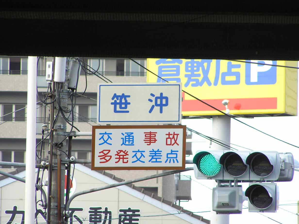 Sign of Sasaoki intersection